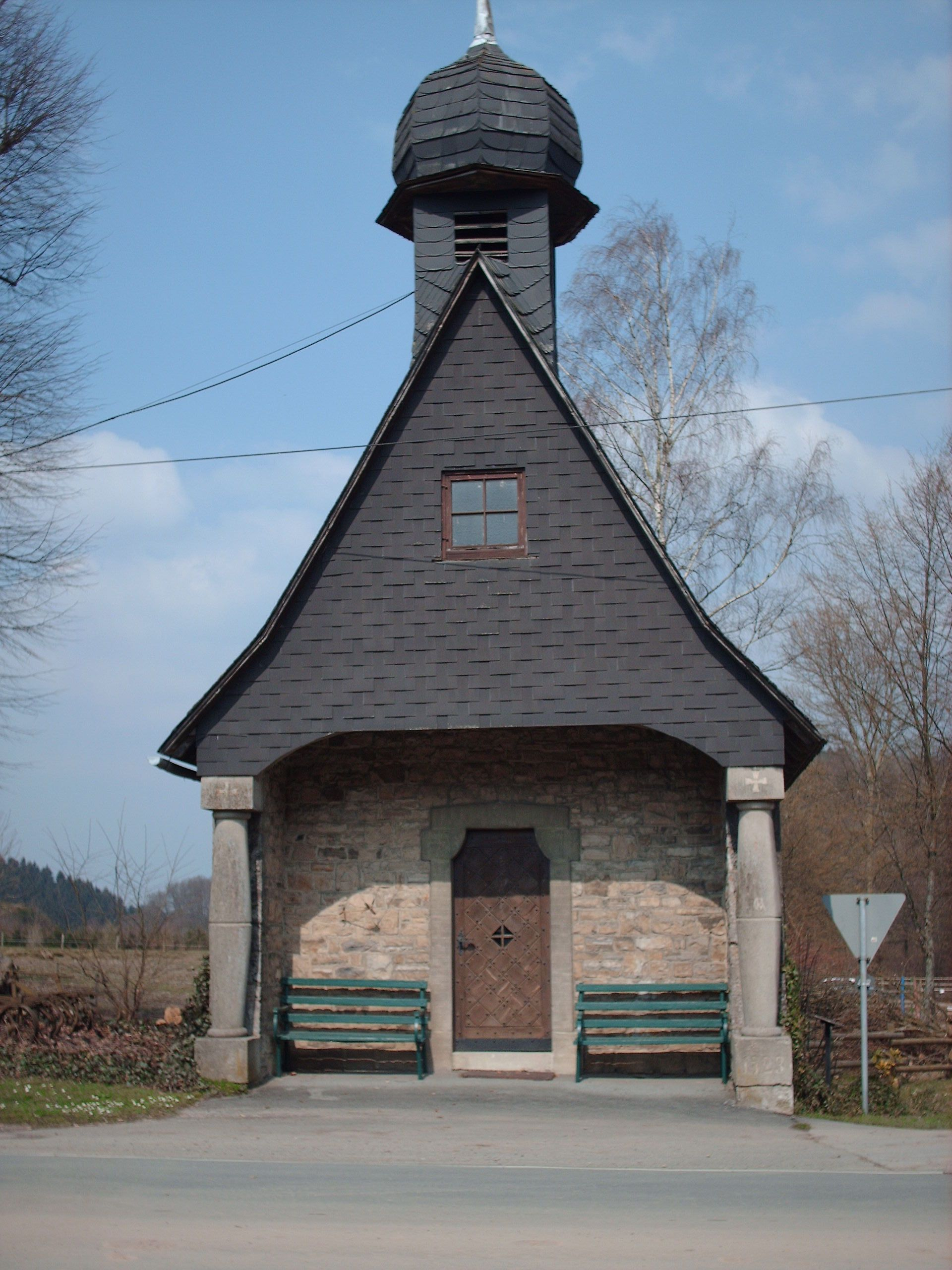 Chapel Bönkhausen, Sundern, Germany check usage